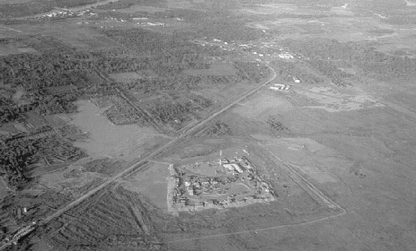 This is an aerial photo of Fire Support Base Danger, headquarters of the 4/39 "Hardcore" Infantry Battalion, 1st Brigade, 9th Infantry Division, United States Army, in Dinh Tuong Province, Republic of Vietnam, during "Operation Speedy Express" in March 1969. I located this work -- attributed to the U.S. Army -- on someone's personal web site with the following description: "In March 1969 the [Ninth Infantry] Division erected their final fire support base to be constructed in Vietnam. It was the westernmost installation in Dinh Tuong Province and housed the battalion HQ of the 4/39 Infantry, Company B, and a battery of six, 105mm, towed howitzers from the 1/11 Artillery. The base was ideally situated between the Rach Ba Lam and the Rach Chanh in a wide expanse of inundated rice paddies with clear fields of fire on all perimeters. The helicopter pads were outside the fortifications. - US Army photo"